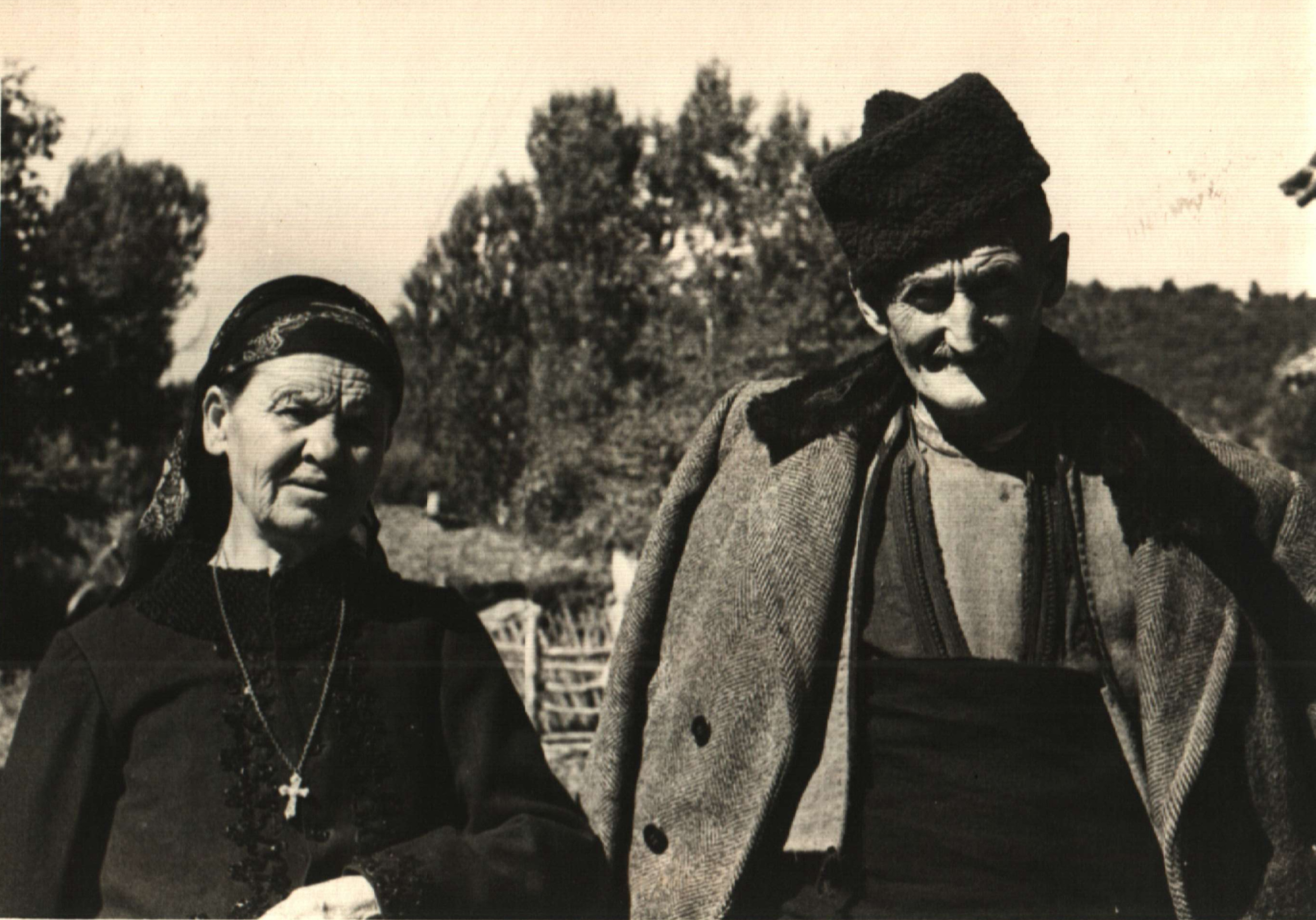 National costume of Bulgaria. Panagyurishte